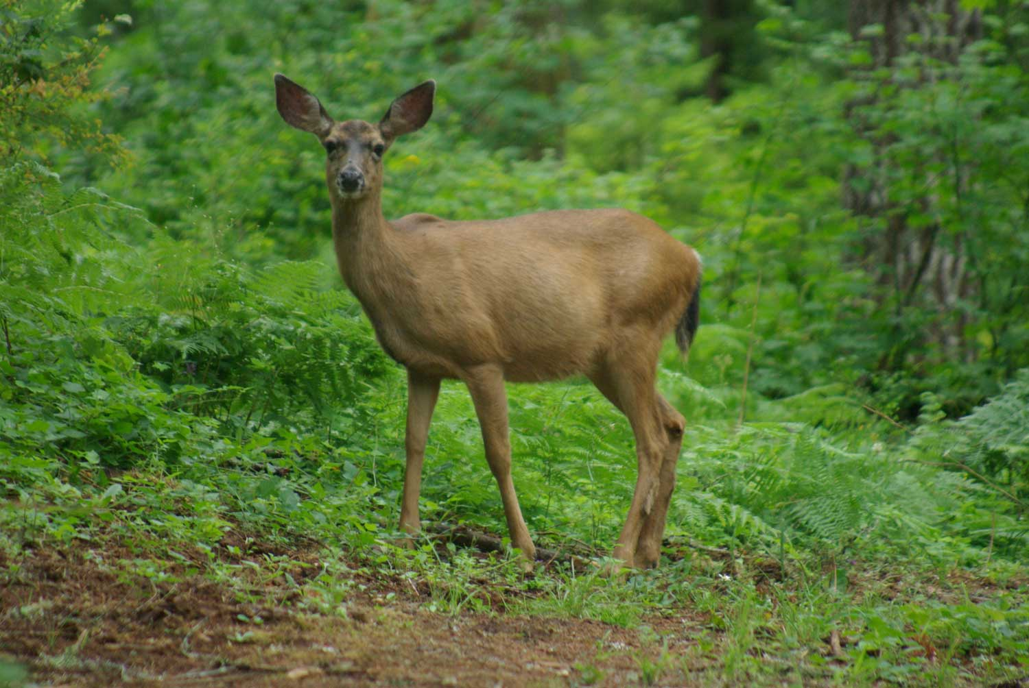 Black-tailed deer near Apiary, Oregon in July 2007. Taken with Pentax K10 at f/5.6, 1/60th second, ISO 800 using FA 80-320 zoom at 320.